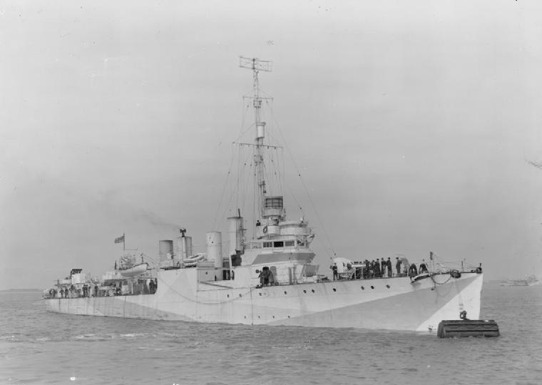 Photograph of Royal Navy destroyer HMS Mansfield, the former USS Evans (DD-78), at a buoy on the Medway.